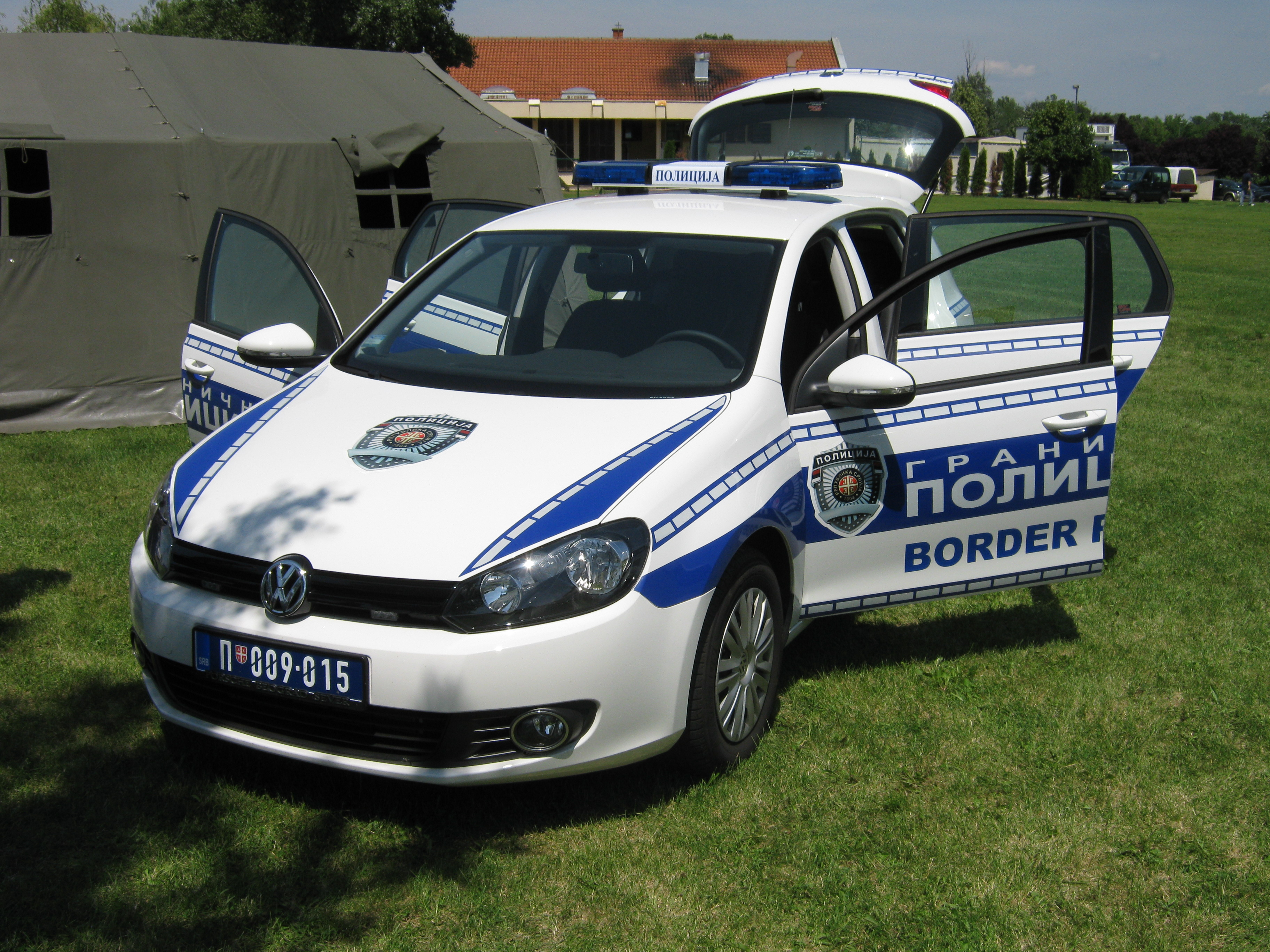 Volkswagen Golf VI of Serbian Border Police and Serbian police force.